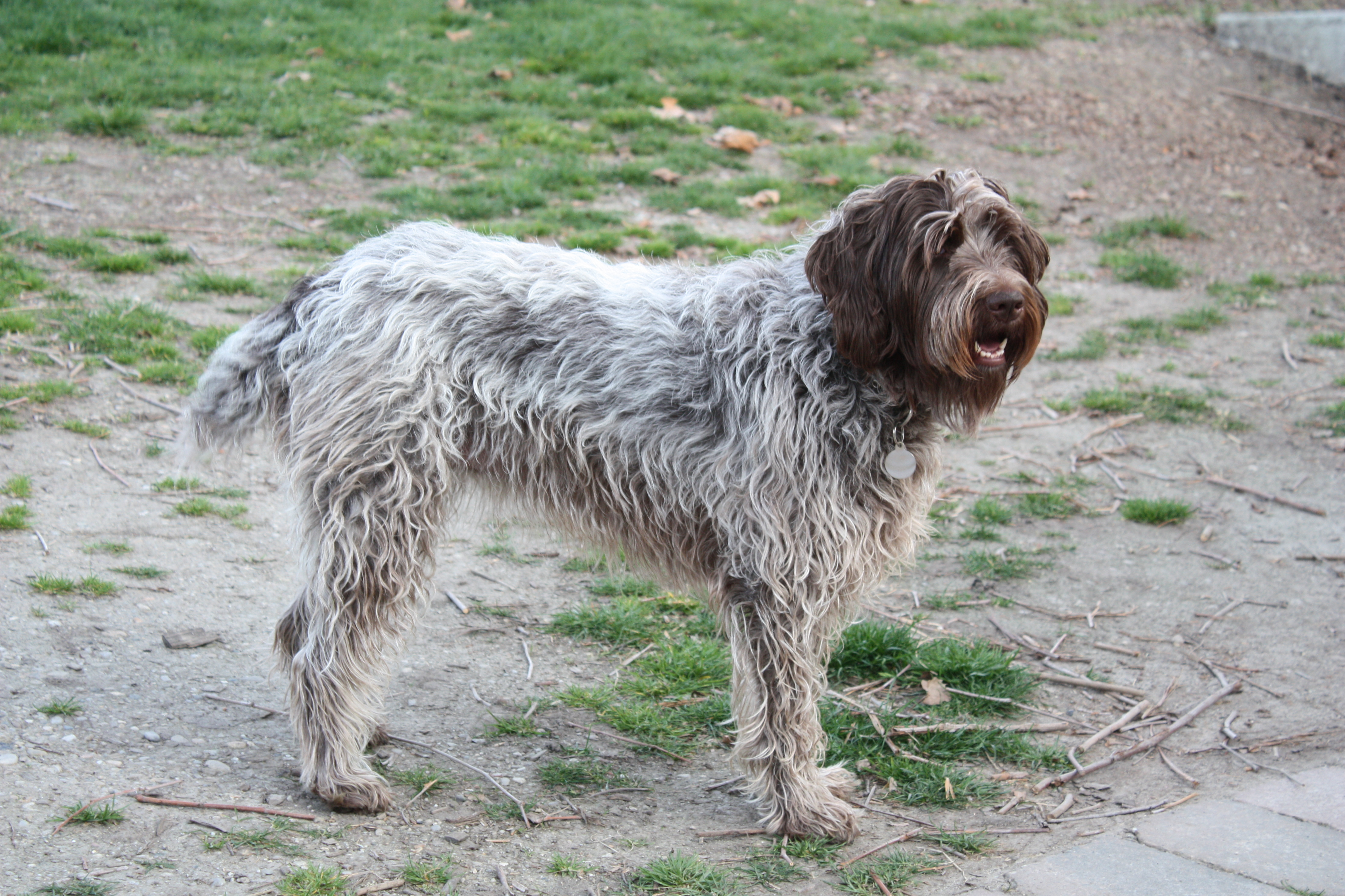 Adult Griffon dog standing